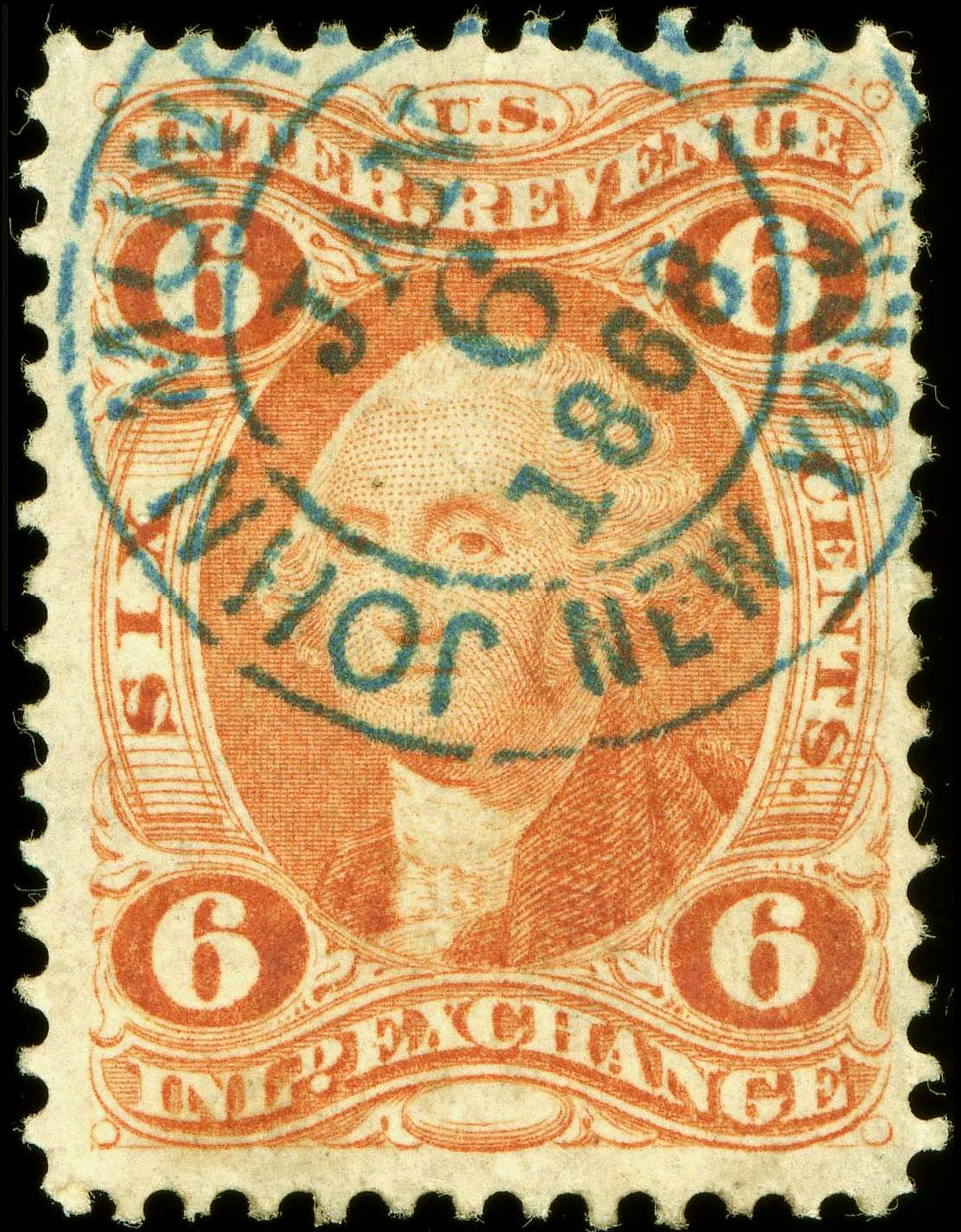 Image of U.S. Revenue stamp, Washington, 6c, R30c, issue of 1862-1871